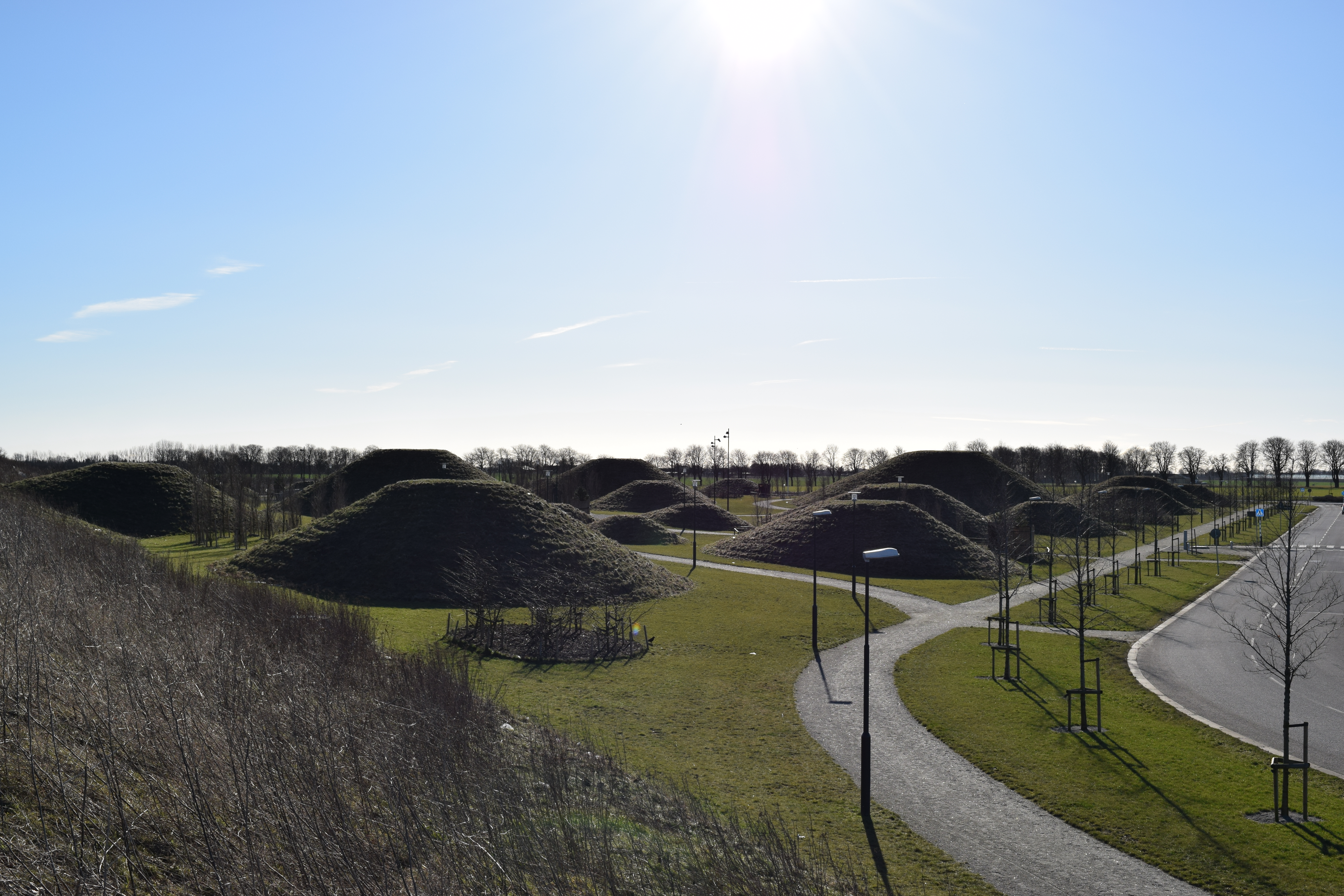 Annestad hills